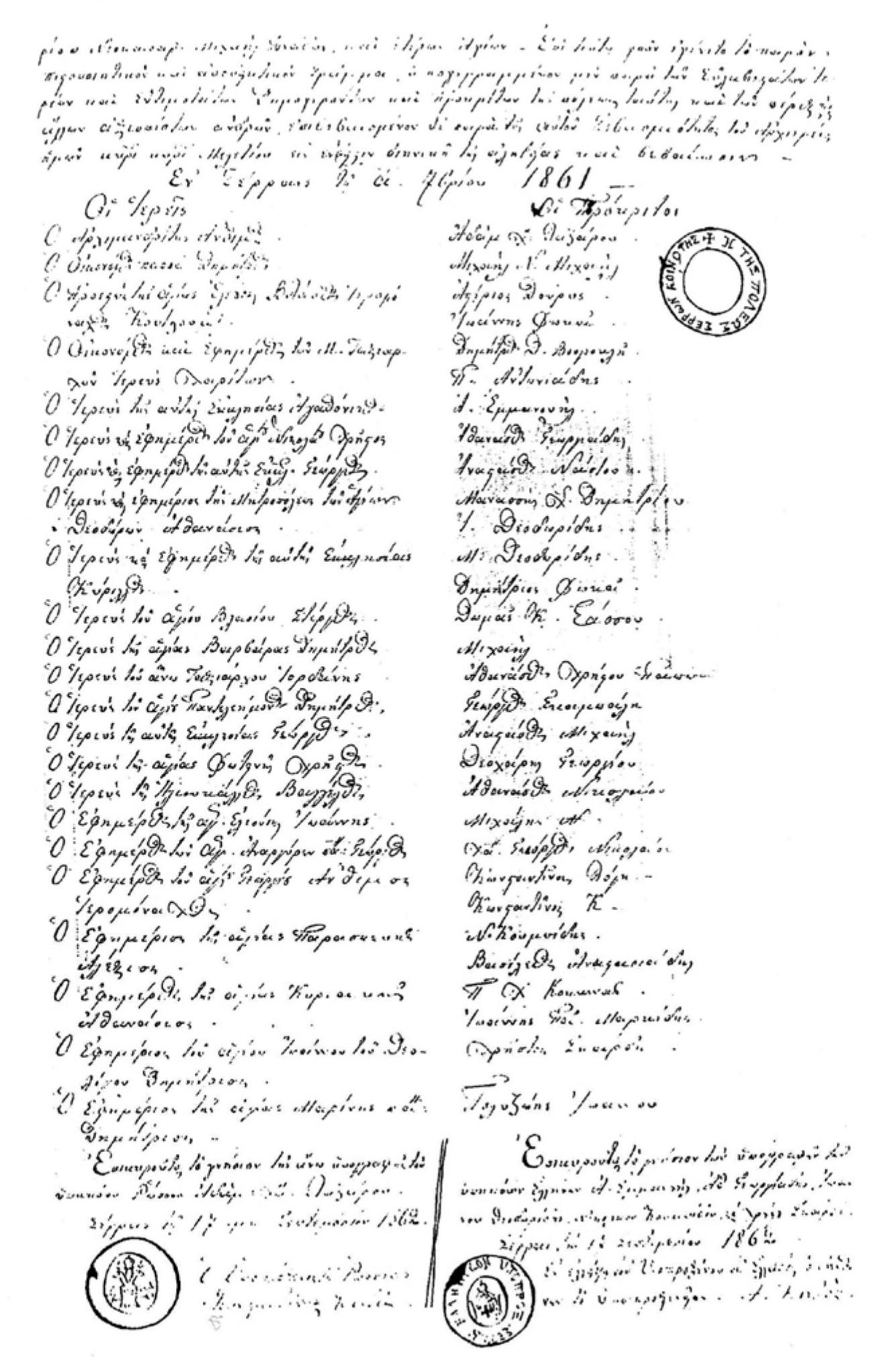 Serres Monastery codex Page 422